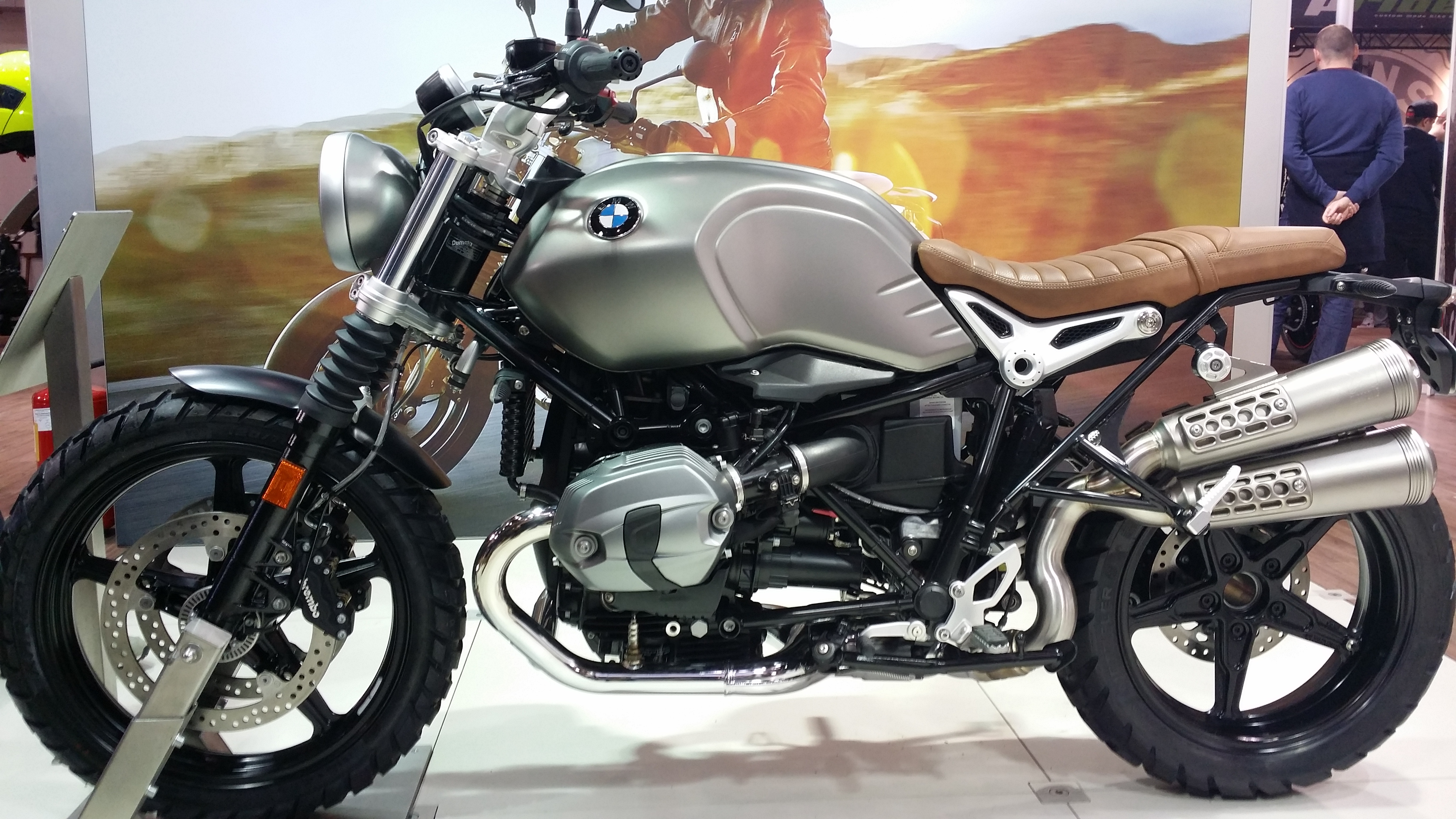 Motorcycle Manufacturer: BMW Type: R nineT Scrambler